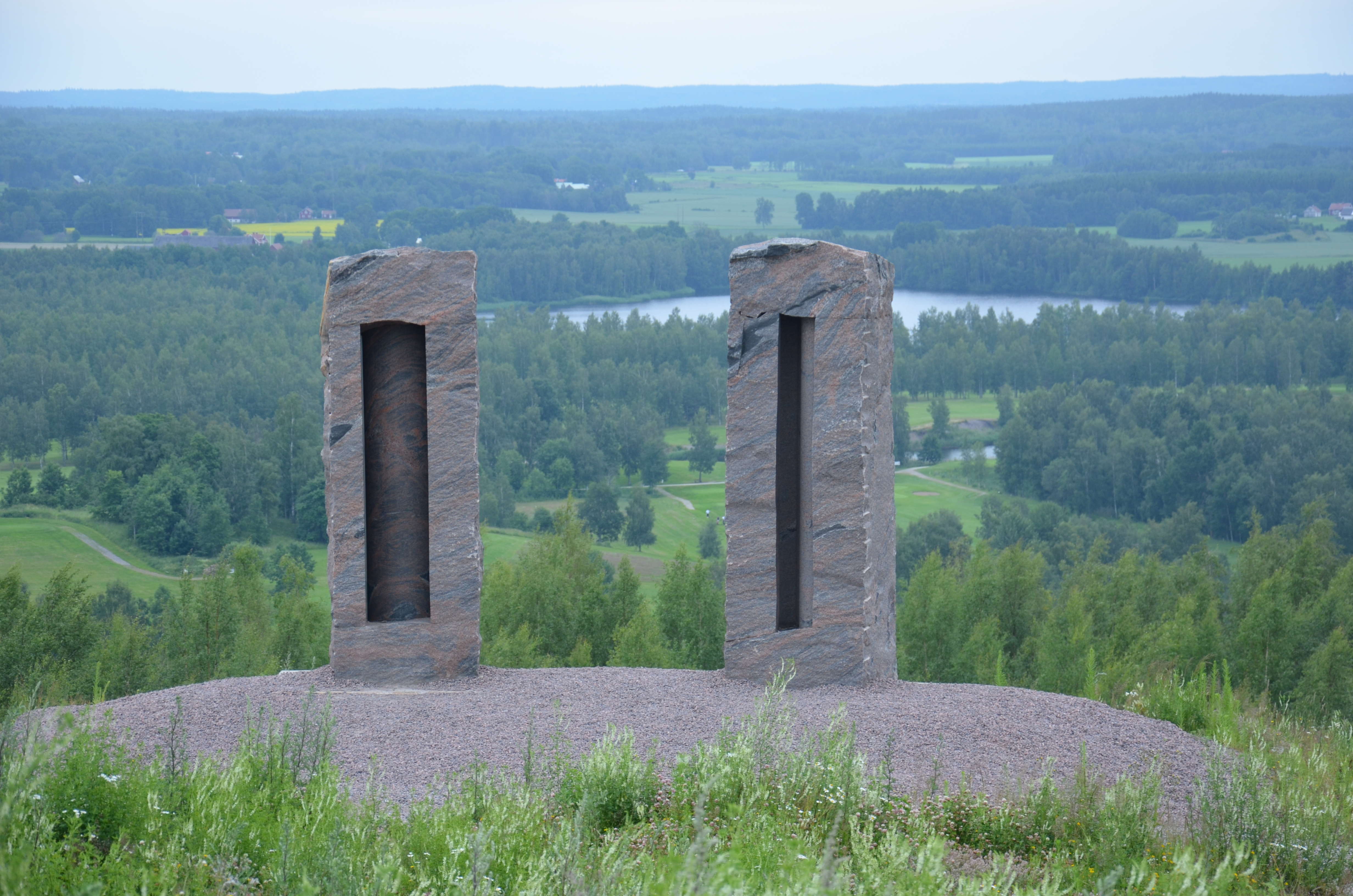 Ljusrum I och Ljusrum II by Pål Svensson, 1998, hallandsgnejs, Konst på Hög, Kumla, Sweden